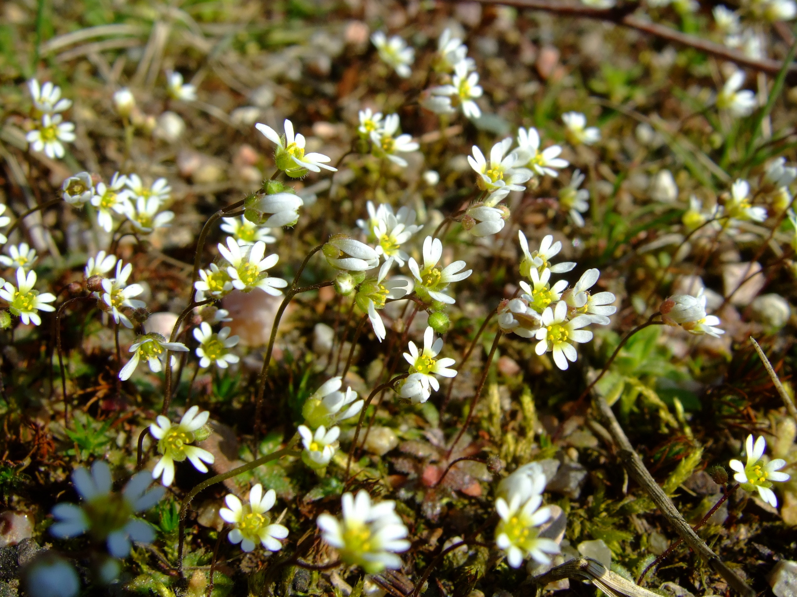 Spring draba in Bahrenfeld, Hamburg